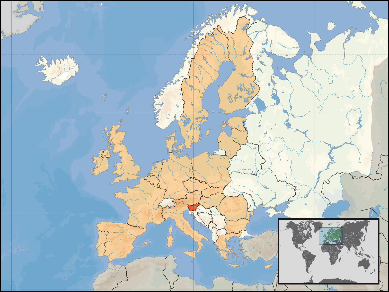 Location of Slovenia within Europe and the European Union on the 1st of January 2007.